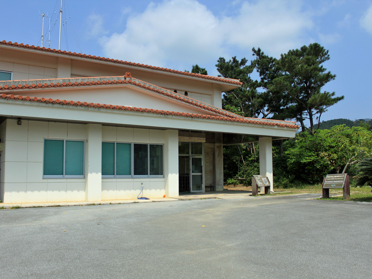 Iriomote Wildlife Conservation Center, Iriomote Island, Okinawa, Japan （西表野生生物保護センター）